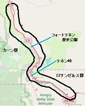 Christo and Jeanne-Claude / The Umbrellas Japan-USA 1984-91 /USA side This map may be incomplete, and may contain errors. Don't rely solely on it for navigation.